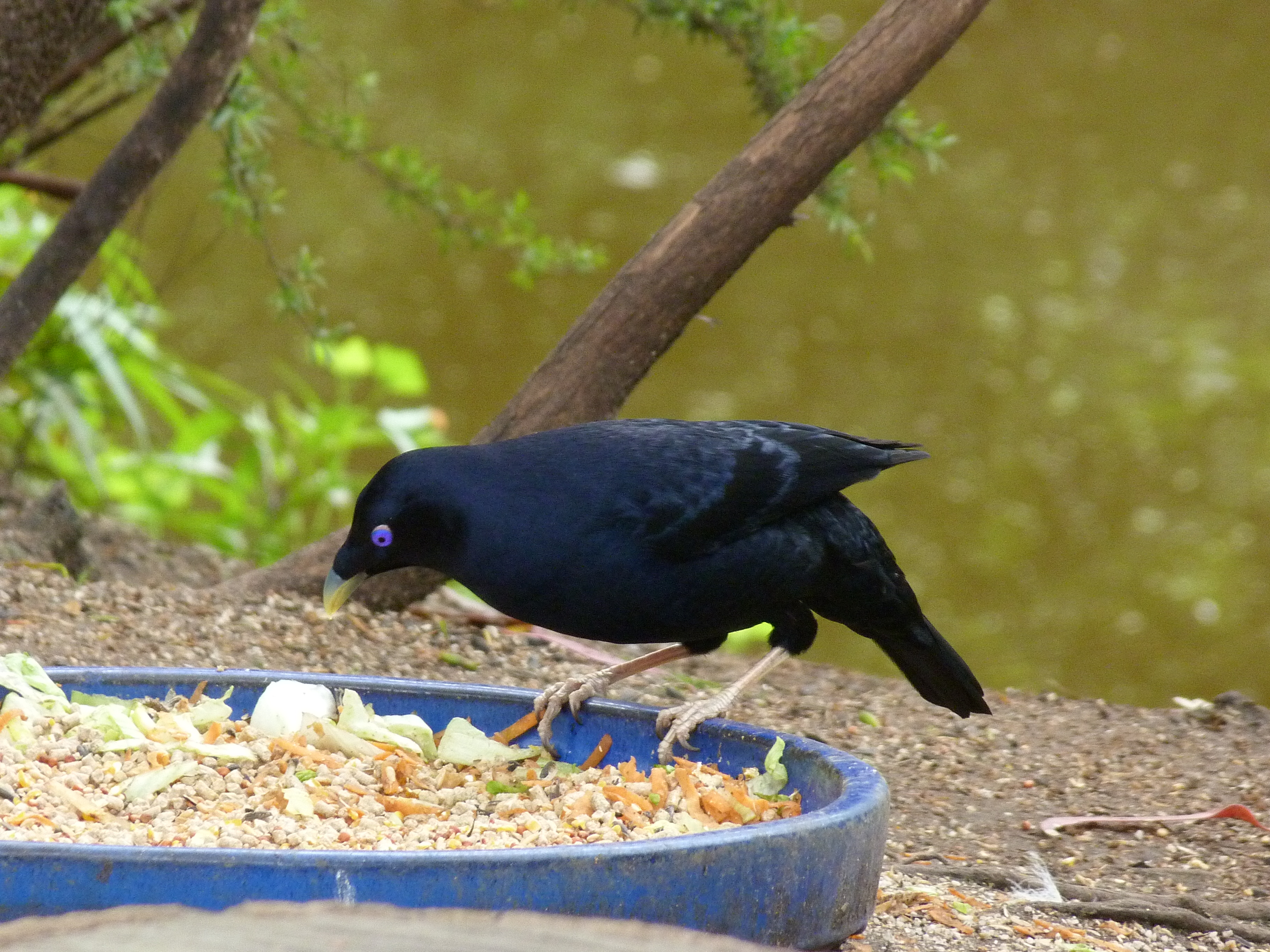 A male Satin Bowerbird in Merimbula, New South Wales, Australia.